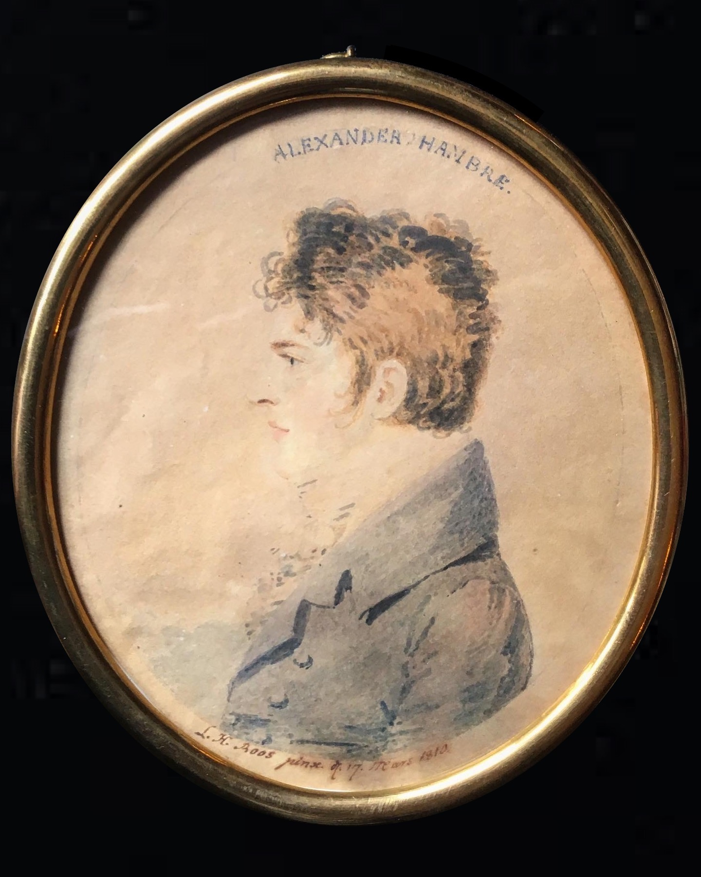 An 1810 portrait of Alexander Hambré by eonard Roos af Hjelmsäter